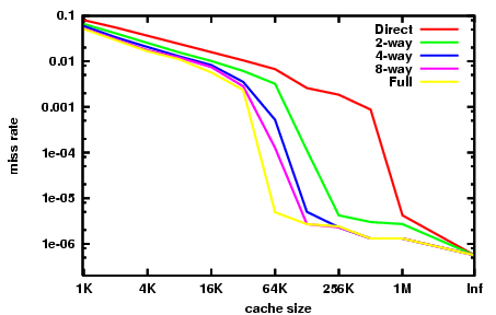 Plot of miss rate versus cache size for various associativities.